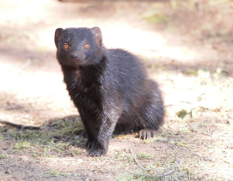 Black mongoose photographed at Waterberg Plateau, Namibia